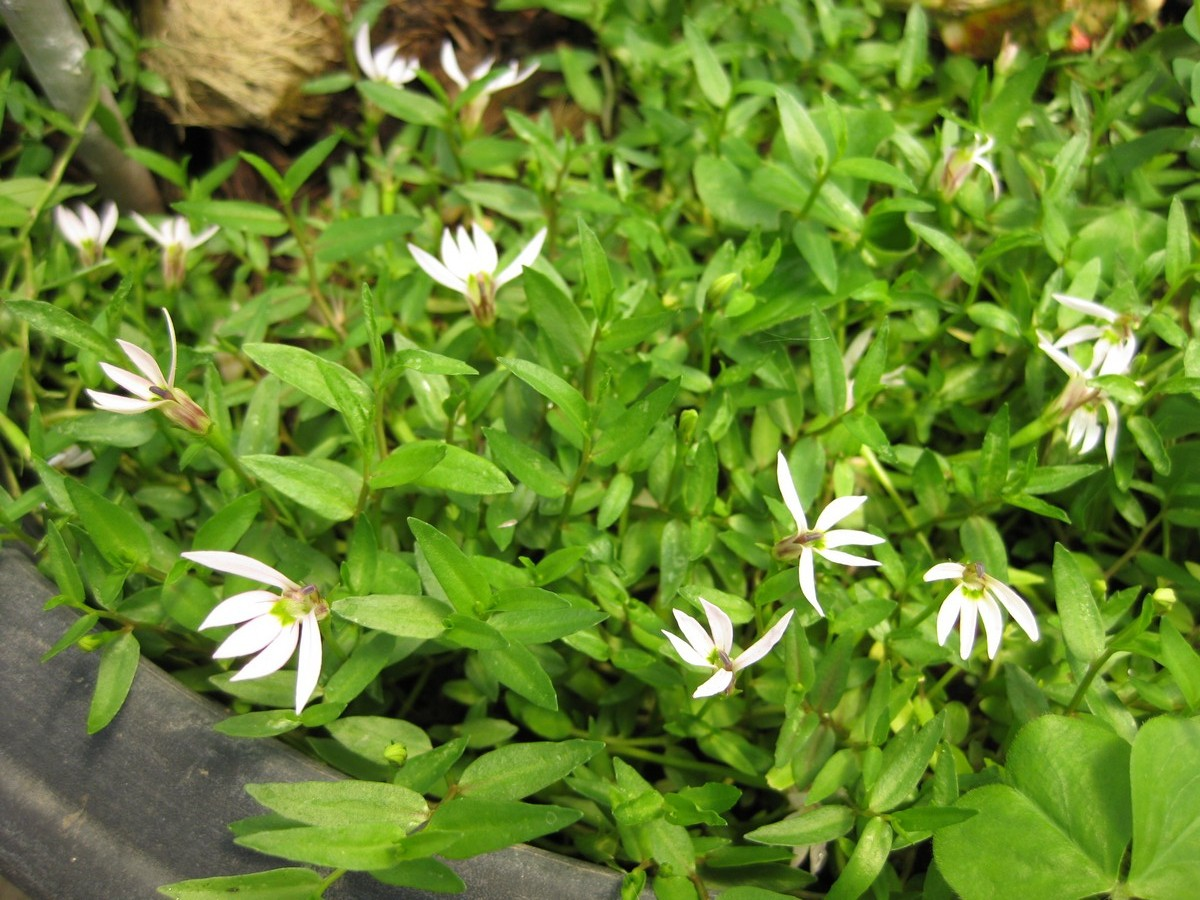 Lobelia chinensis. Photographed at the Queen Sirikit Botanic Garden (Chiang Mai Province, Thailand) in March